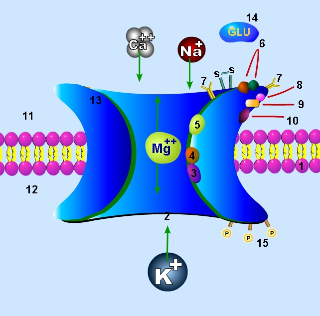 Figure of the NMDA receptor present the nervous system. Legend: 1. Cell membrane 2. Channel blocked by Mg2+ at the block site (3) 3. Block site by Mg2+ 4. Hallucinogen compounds binding site 5. Binding site for Zn2+ 6. Binding site for agonists(glutamate) and/or antagonist ligands(APV) 7. Glycosilation sites 8. Proton biding sites 9. Glycine binding sites 10. Polyamines binding site 11. Extracellular space 12. Intracellular space 13. Subunidad del complejo